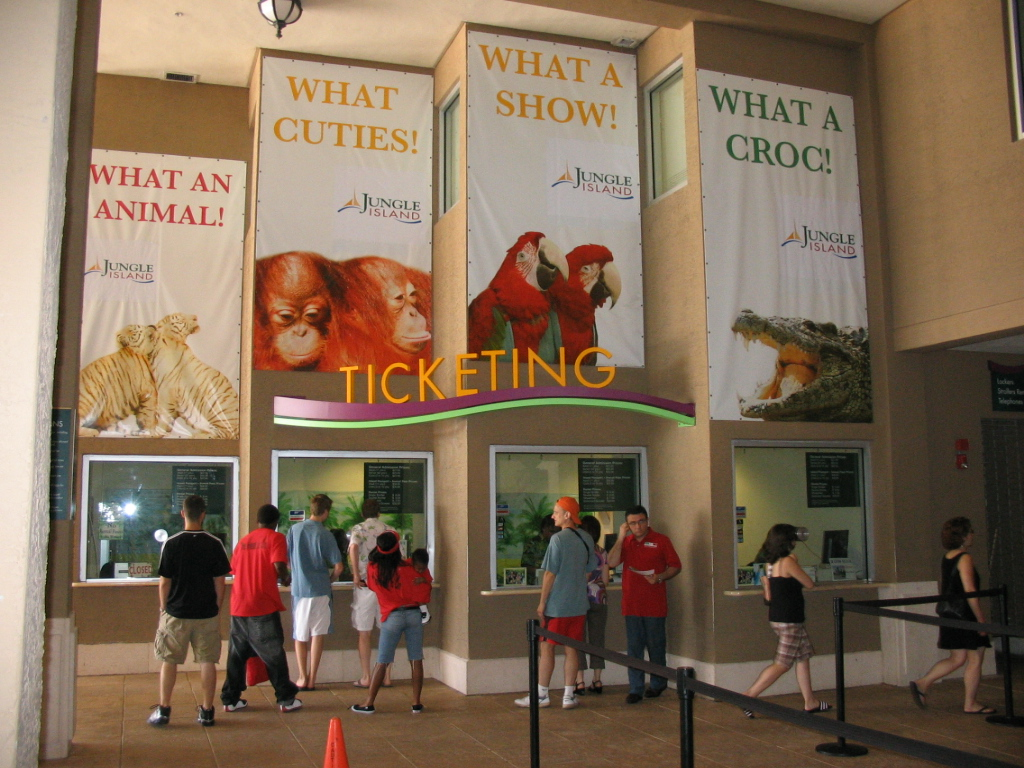 The entrance to Jungle Island, Florida, USA. Photograph 28 July 2007.